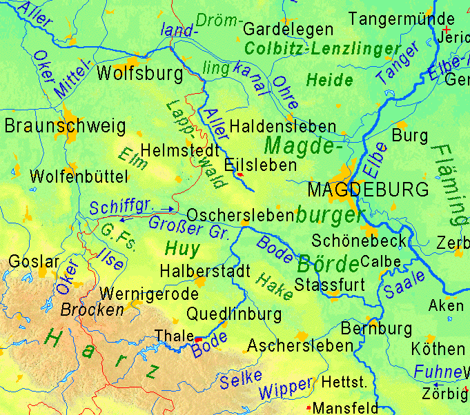 physical map of the Magdeburger Börde, cut of Image:Sachsen-Anhalt.gif